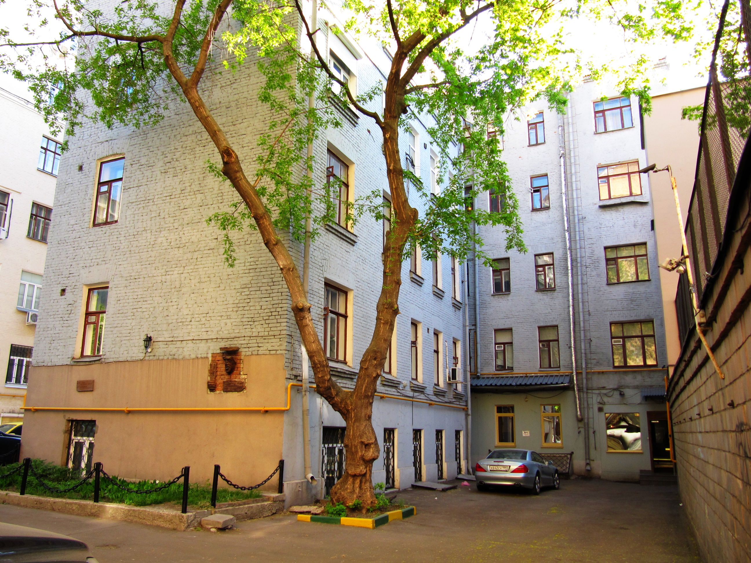 Moscow, Bolshoy Karetny Lane, 15. The rear facade of the house where Vladimir Vysotsky lived in 1949-1955